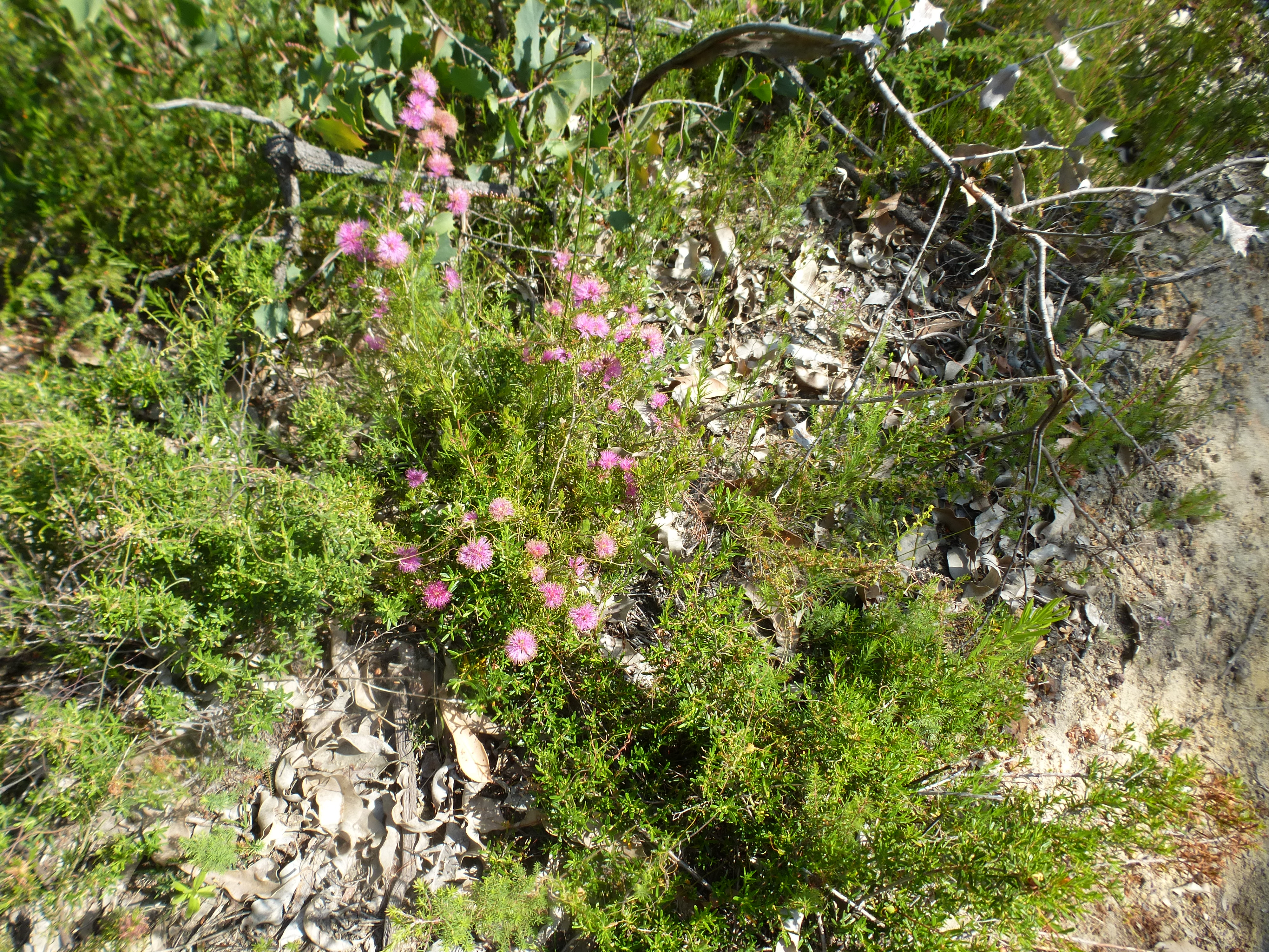 Melaleuca parviceps growing in the Kalamunda National Park.